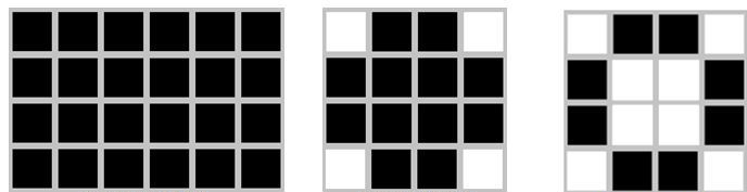 Basic structure elements in MAth morfology